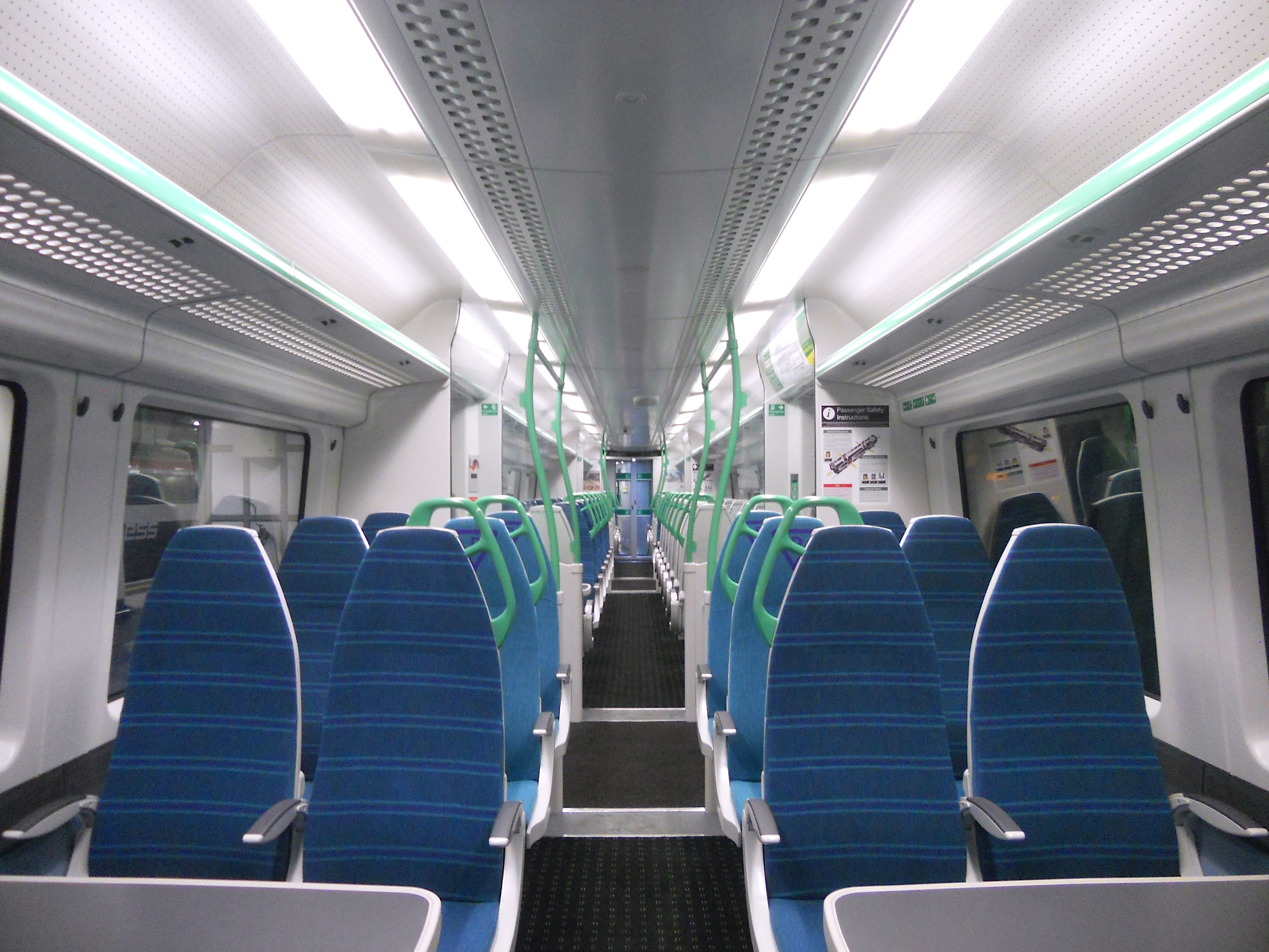 The interior of Southern Railway Class 377/6 and Class 377/7 Electrostar